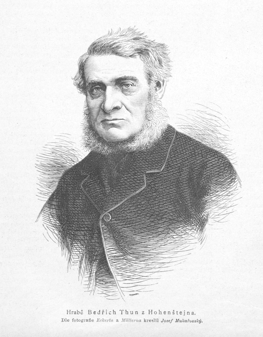 Portrait of Friedrich von Thun und Hohenstein (1810-1881), Austrian diplomat. Based on a photograph by Jindřich Eckert (1833-1905) and Julius Müller (1831-1904).